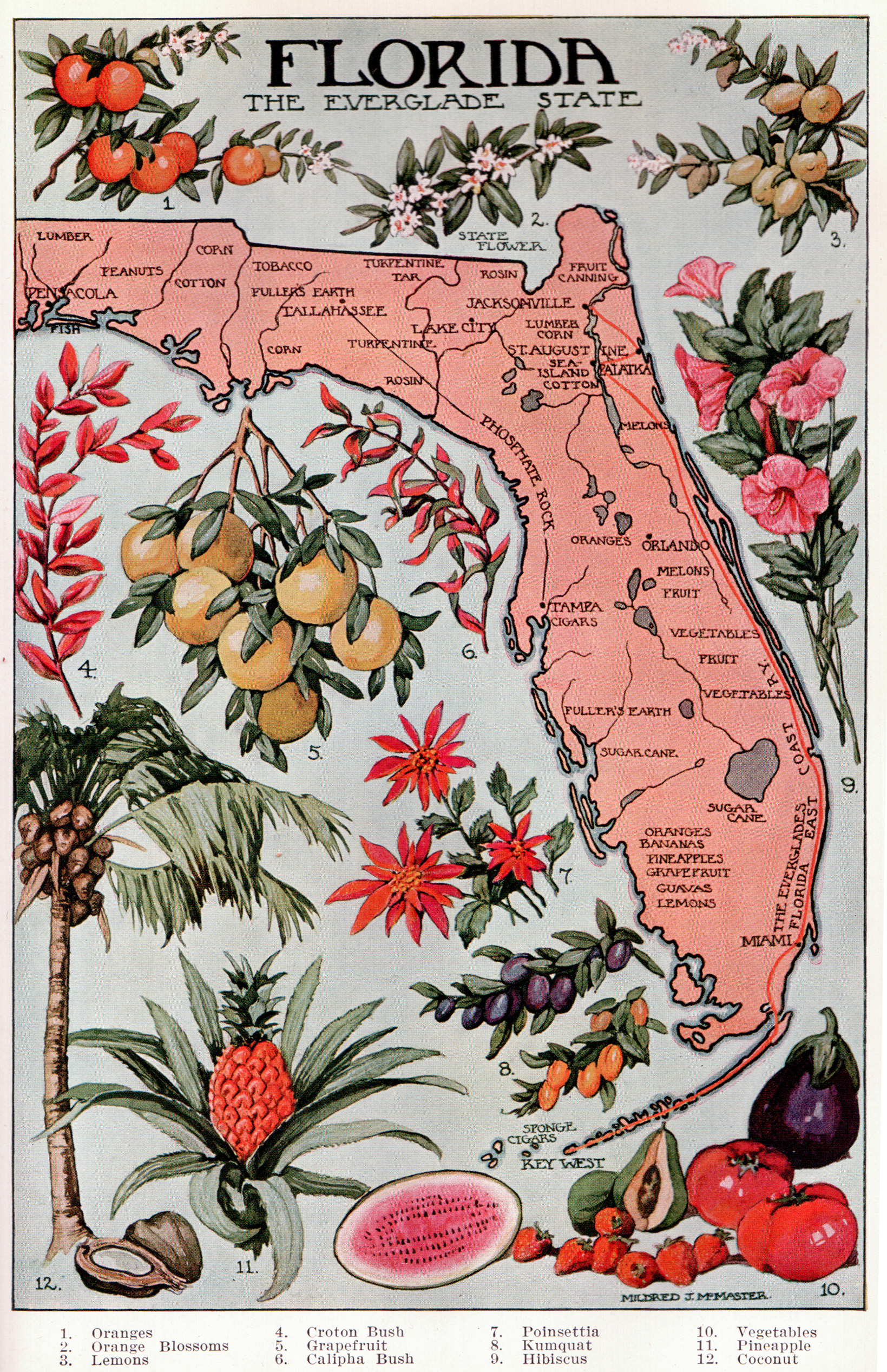 This illustration is from the public domain book "The Home and School Reference Work" Volume III by The Home and School Education Society, H. M. Dixon, President and Managing Editor. The book was published in 1917 by The Home and School Education Society. This copyright free illustration of the state of florida includes a map, palm tree, fruit and flowers. It appears between pages 1046 and 1047. Flickr data on 2011-08-23: Tags: 1917, book, The Home and School Reference Work, copyright free, creative commons, flickr, free, freebie License: CC BY 2.0 User: perpetualplum Sue Clark